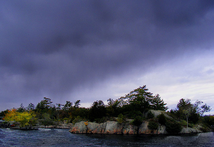 Burleigh Falls, with approaching rain, Ontario [foto by P.B.Toman]